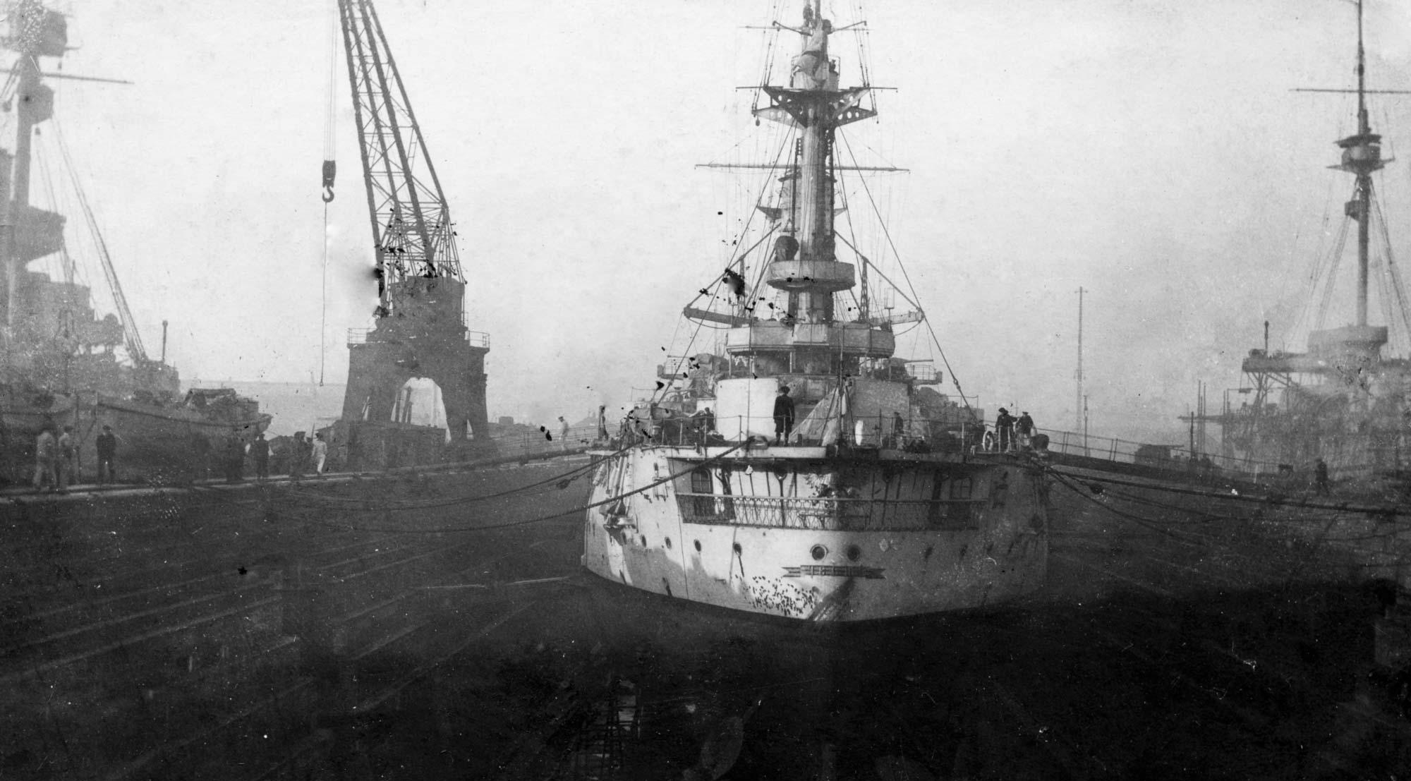 The Imperial Russian battleship Chesma on the dock of Cammell Laird in Birkenhead, November 1916.